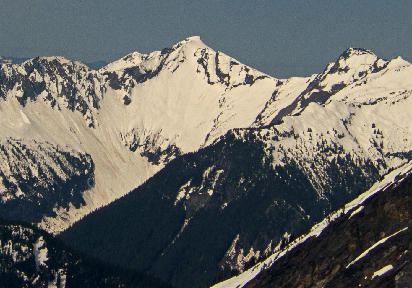 Big Devil Peak from south of Snowfield Peak. North Cascades National Park